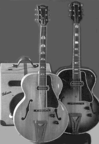 Two variants of the Gibson ES-250